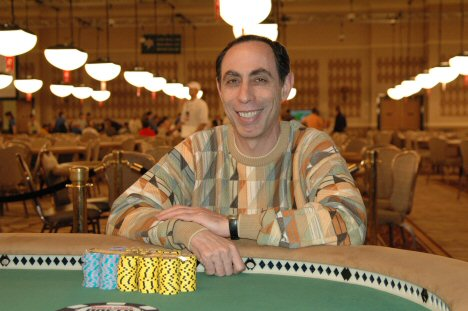 Barry Greenstein moments after winning event #17 2005 World Series of Poker (WSOP) at the Rio, Las Vegas.